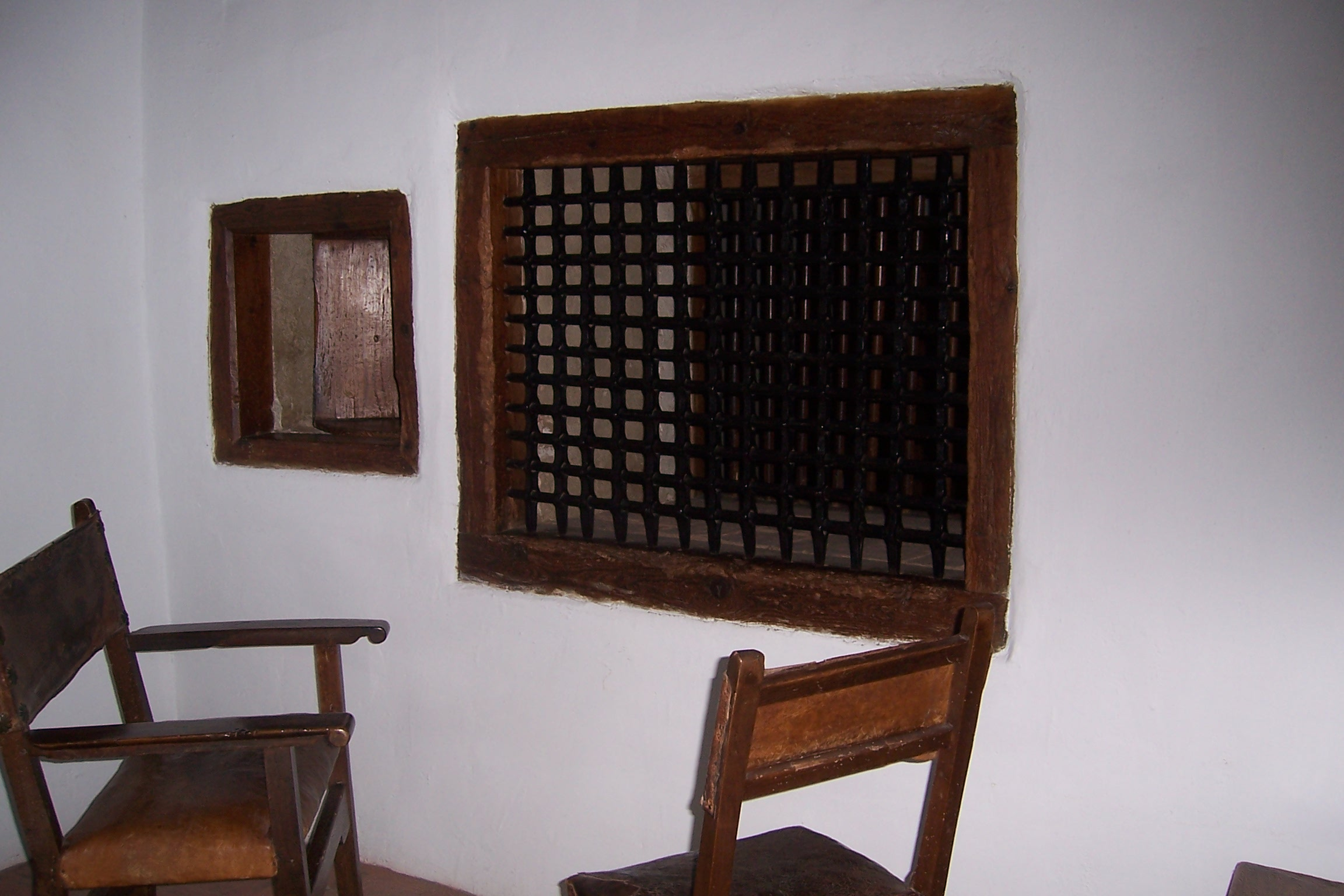 Monastery of La Encarnación founded by St. Teresa of Ávila, in Ávila. Cell out of the enclosed recints where visitors waited to talk to the nuns through the barred window.